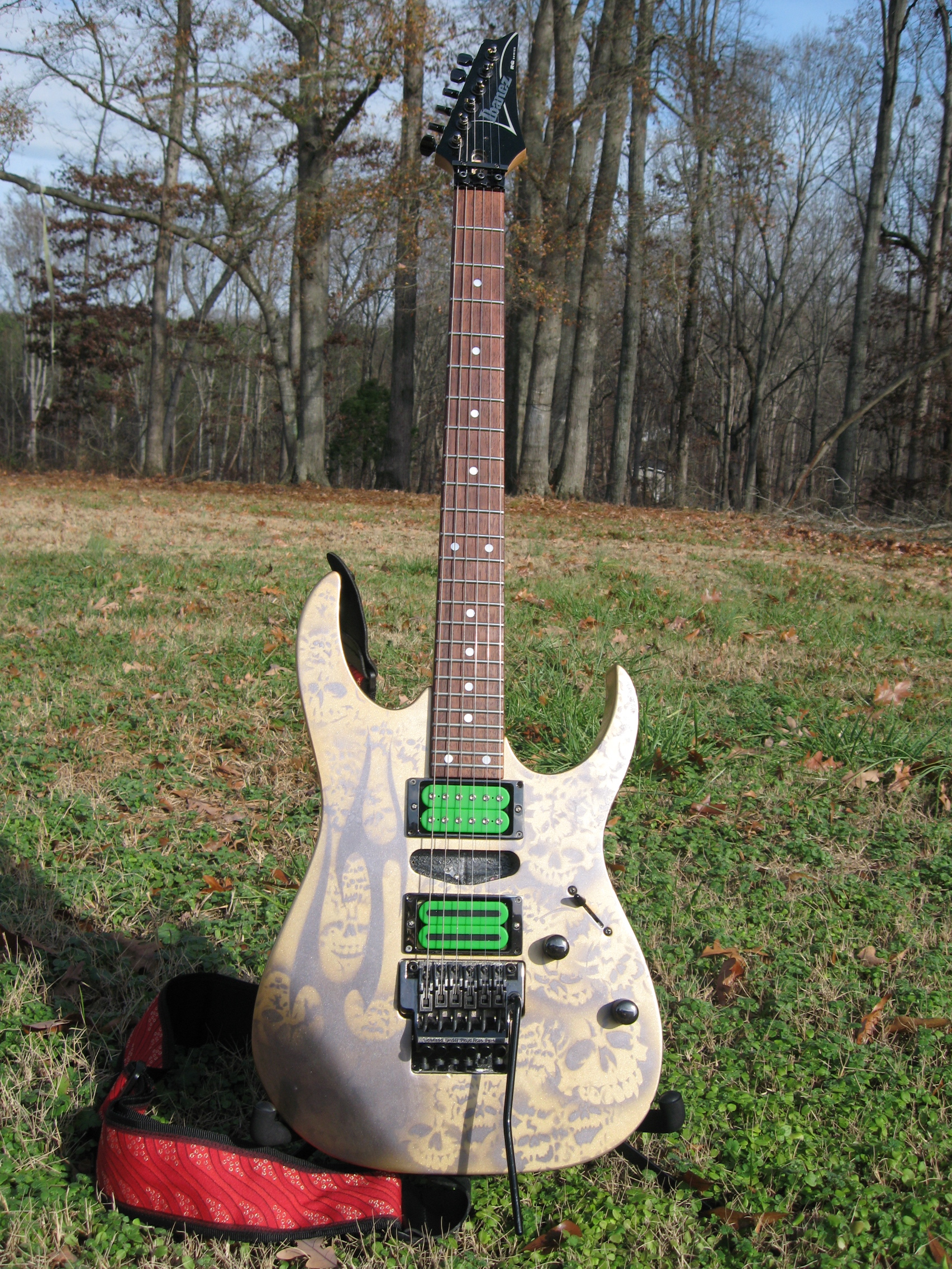 A custom painted and custom modded 1997 Ibanez RG570